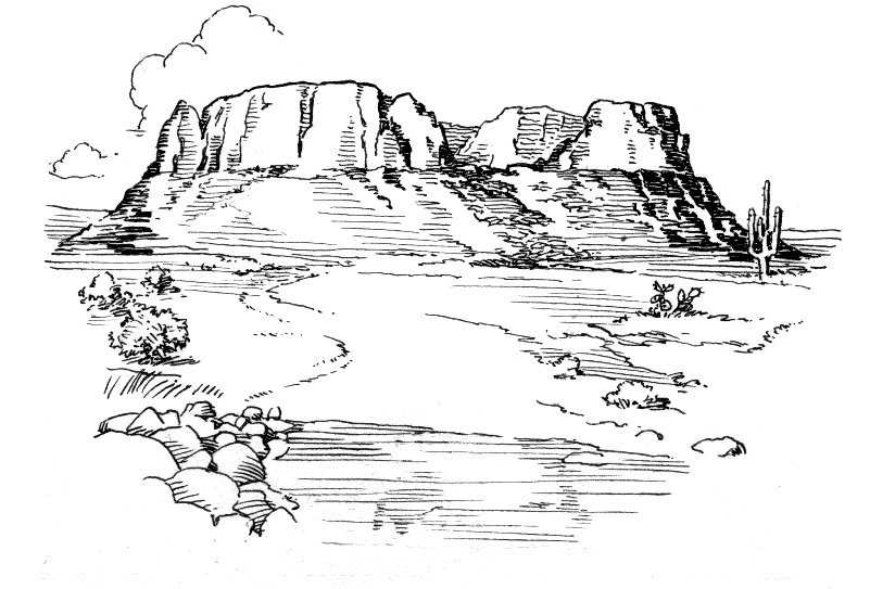 line art drawing